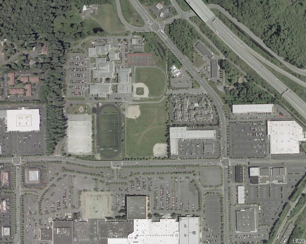 2002 aerial photo of former Lynnwood High School in Lynnwood, Washington. The school is on the north side of 184th St SW and Alderwood Mall is on the south side.